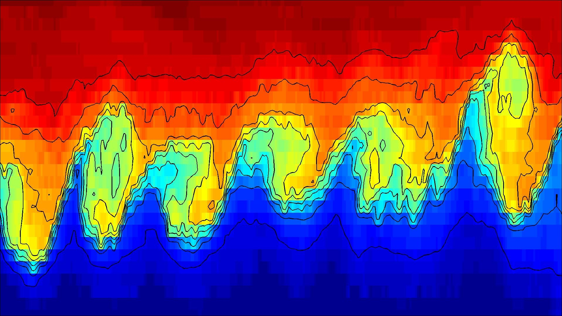 Temperature measured 530m deep, 15m off the bottom of the Great Meteor Seamount, North Atlantic Ocean, 2006 Horizontal scale (time) : 300s Vertical scale :13m Color scale : 12.75-13.25 degree Celsius